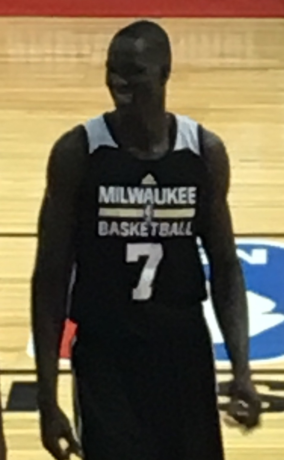 Thon Maker at NBA Summer League